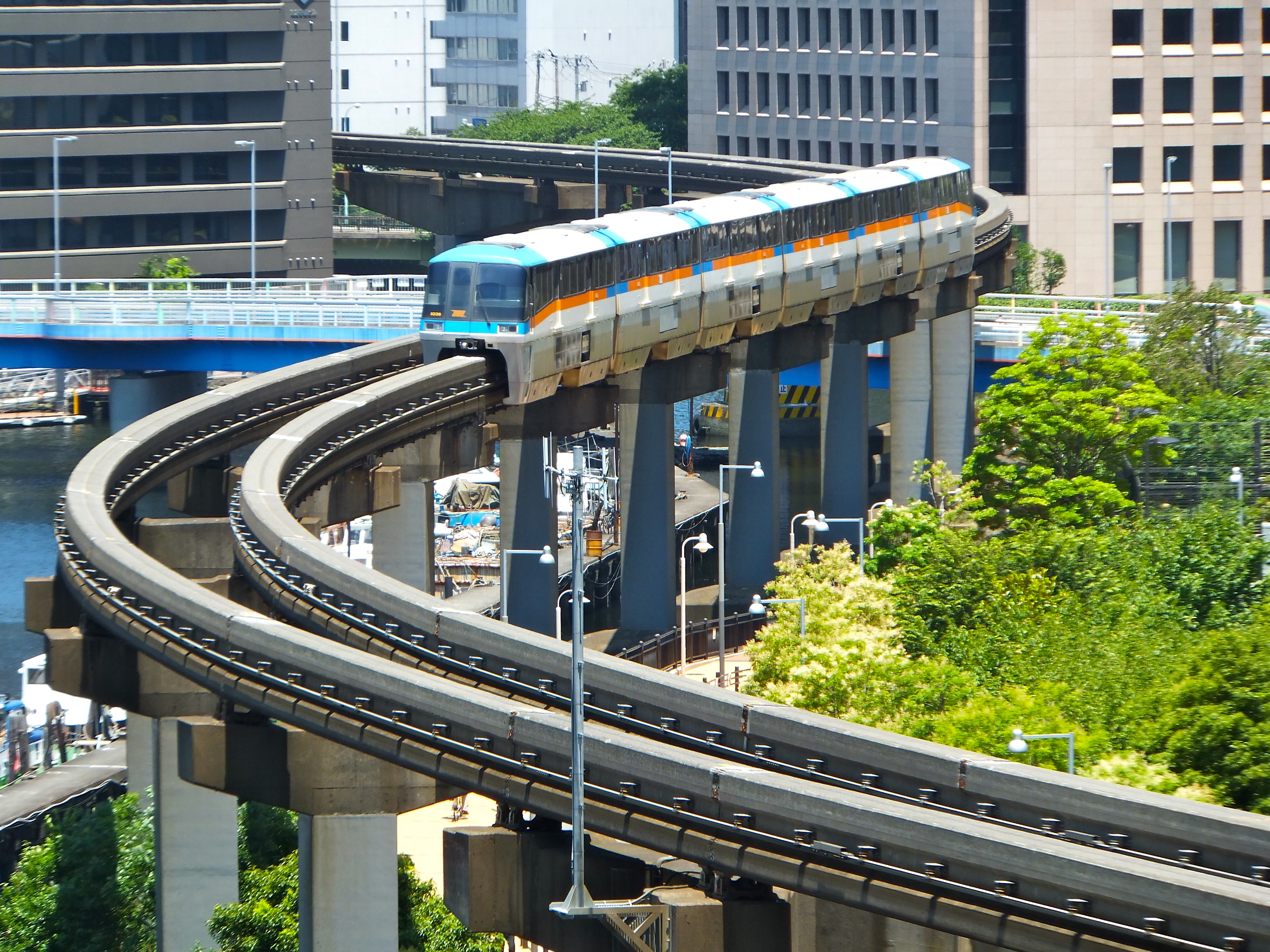 Tokyo Monorail passing through Tennozu